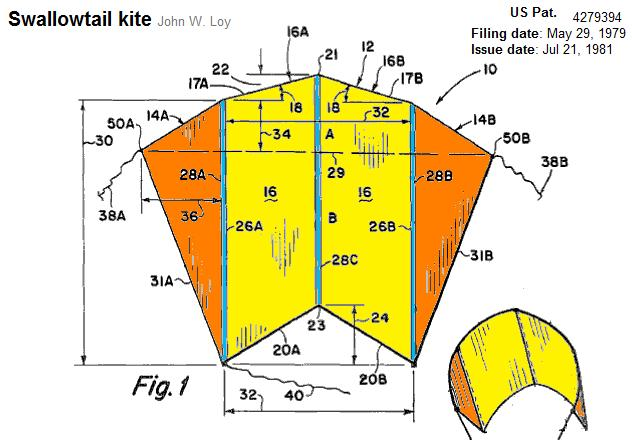 Mr. Loy teaches in US Patent 4279394 a way to avoid the sled kite collapse by use of a center spine set higher in the center.